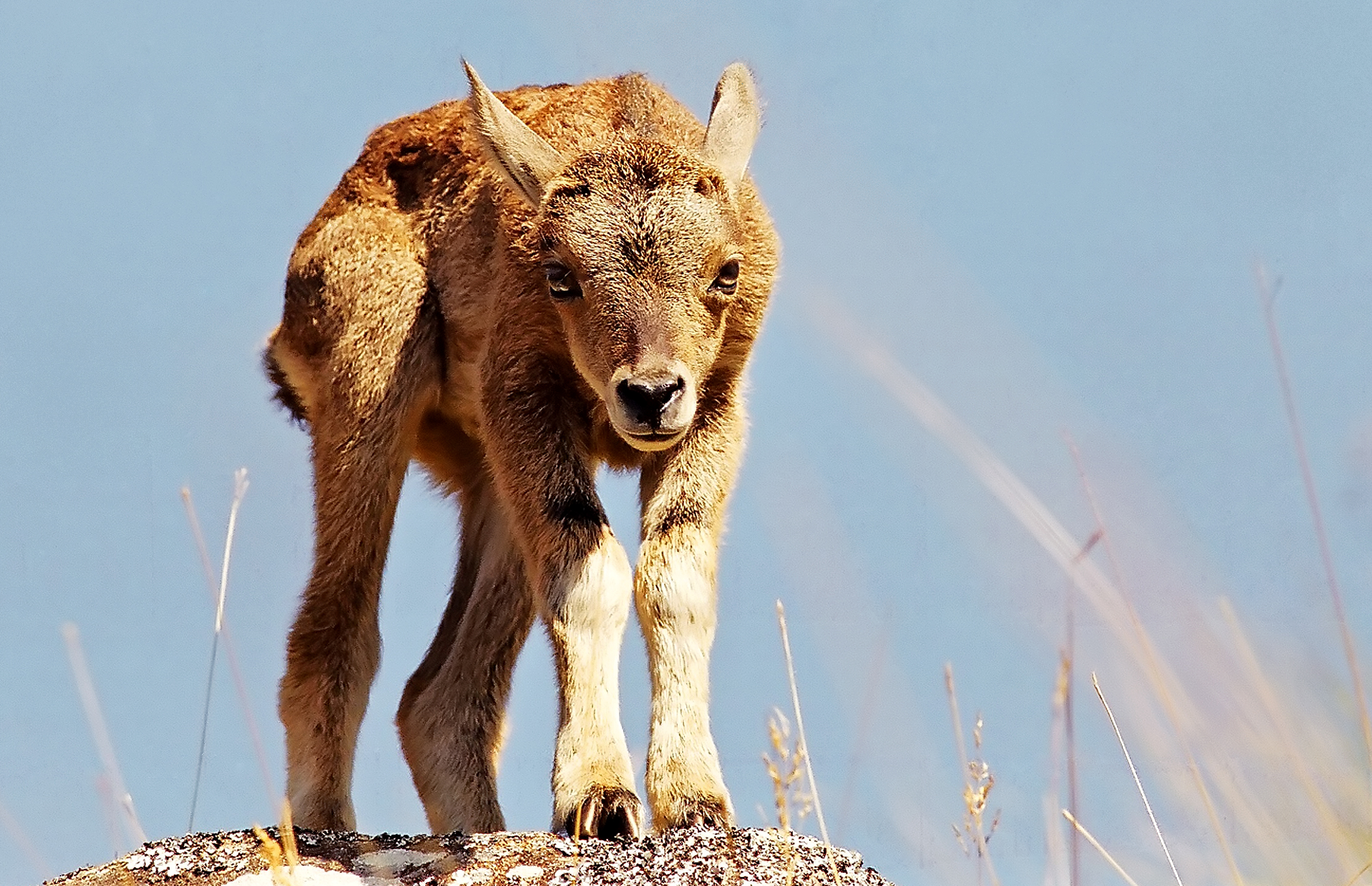 Nilgiri tahr (Nilgiritragus hylocrius) kid anxious look